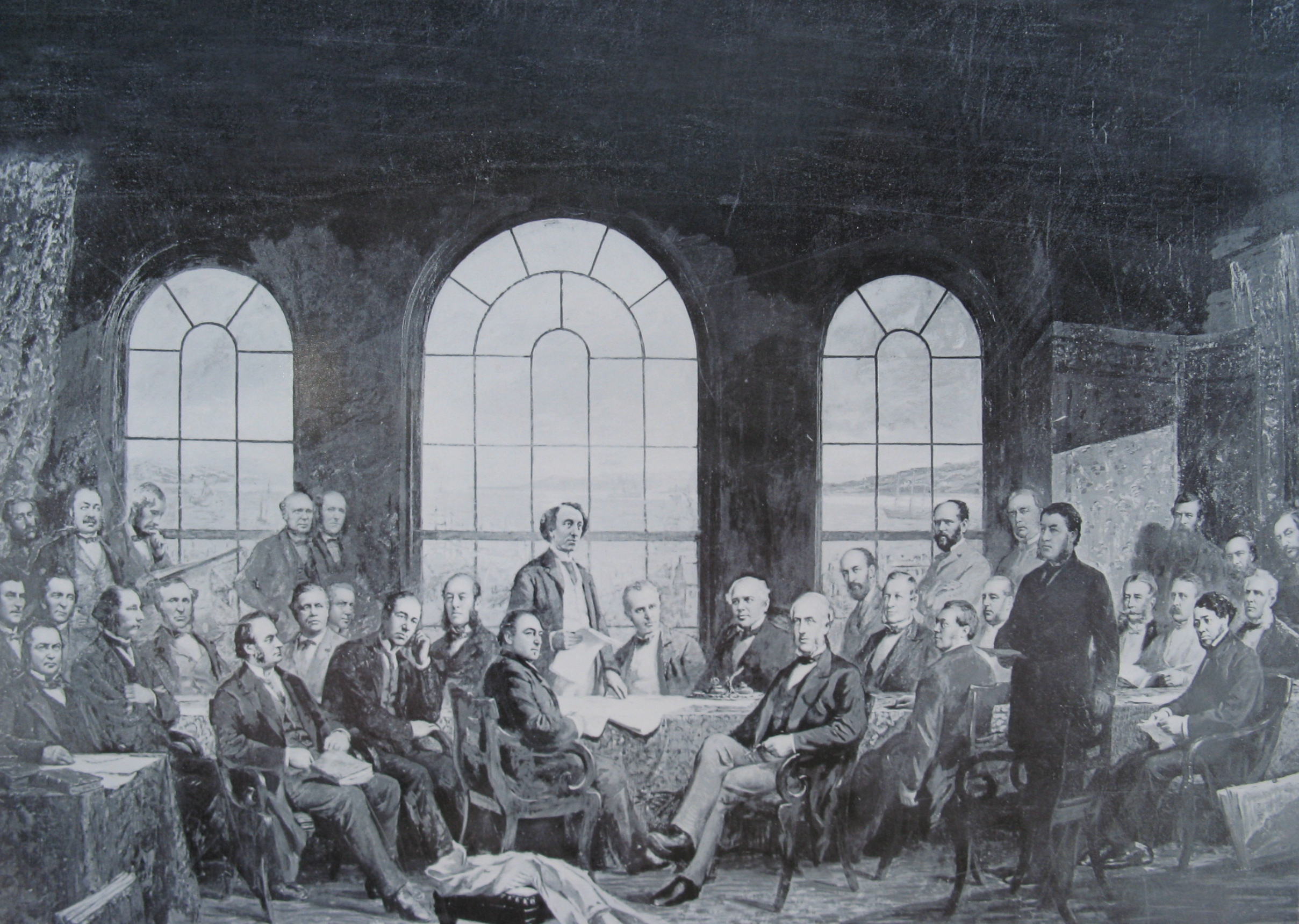 Photo by Jcart1534 of Canadian artist Robert Harris' 1884 painting "The Fathers of Confederation" (from an 1885 photo). The original painting was destroyed in the 1916 Parliament Buildings fire.). Original photo from Library and Archives Canada. Photographer was James Ashfield of the Royal Studio, Ottawa. Description from Library and Archives Canada